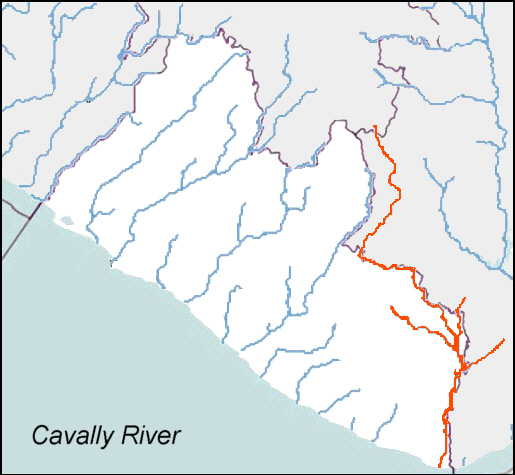 Maps of Cavally River.